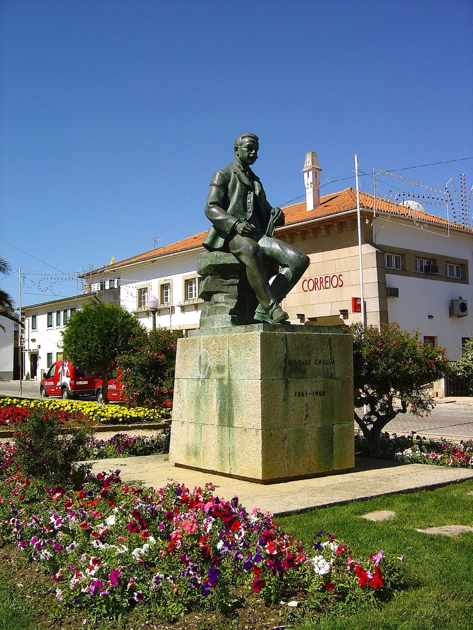 See where this picture was taken. [?]